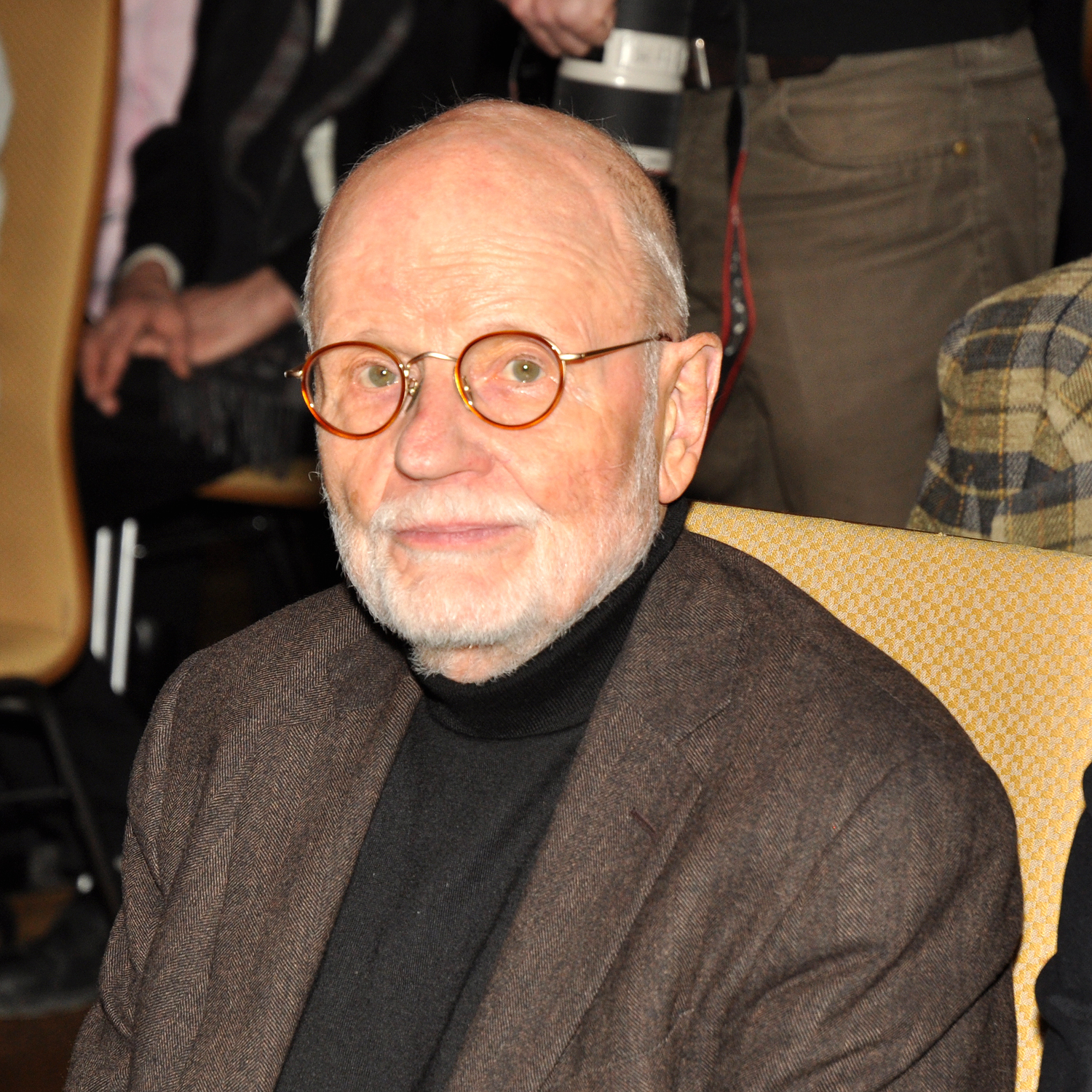 Günter Rohrbach, producer, at Kultureller Ehrenpreis 2015 for Werner Herzog in Munich